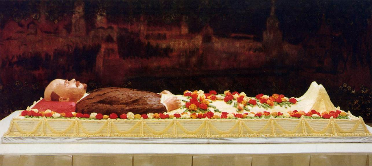 Mausoleum: ritual model